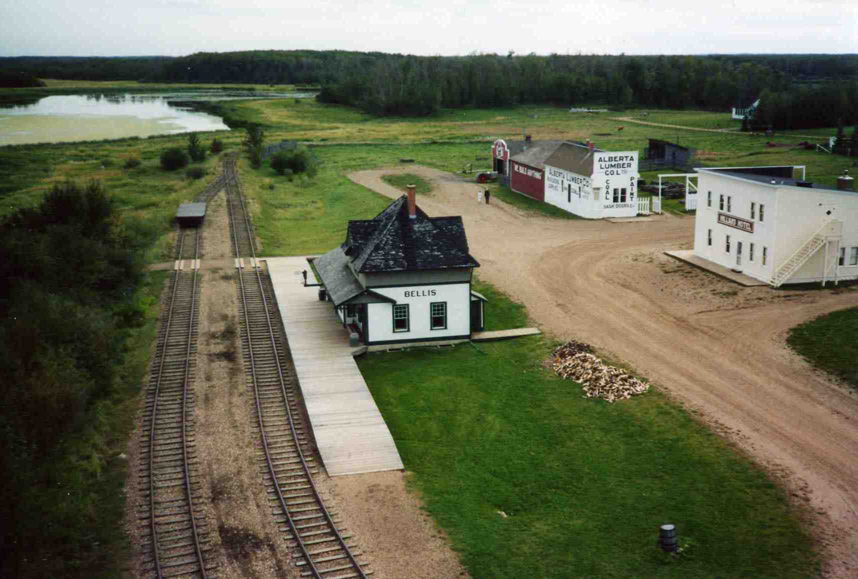 Overhead view of the Ukrainian Cultural Heritage Village. Centre: Bellis CN train station. Right: Hillard Hotel, Lamont Alberta Lumber Company yard, Demchuk blacksmith's. Background: Russia School